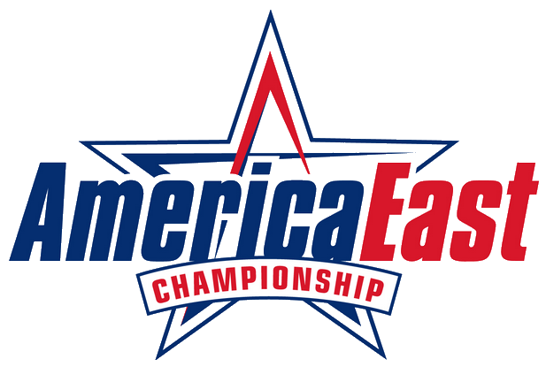 Logo for American East Conference of NCAA.